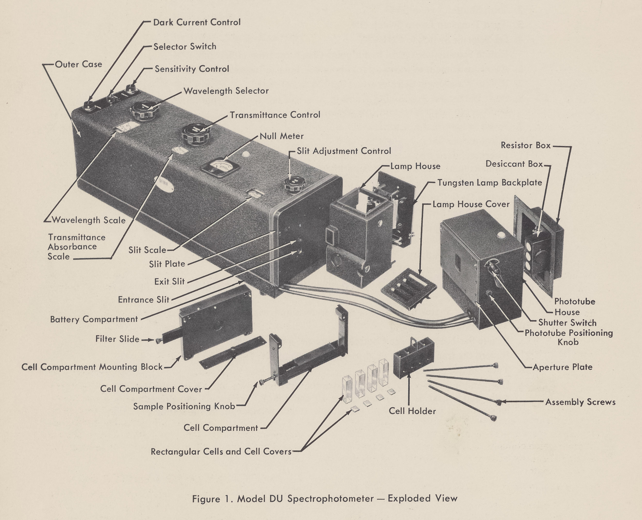 Figure 1. Model DU Spectrophotometer - Exploded View from Beckman Instruments Instruction Manual / The Beckman Model DU Spectrophotometer and Accessories Beckman Division, Beckman Instruments, Inc. Fullerton, CA, [1954]. page 3. Back cover illustration states March, 1954. No copyright statement. No copyright renewals.